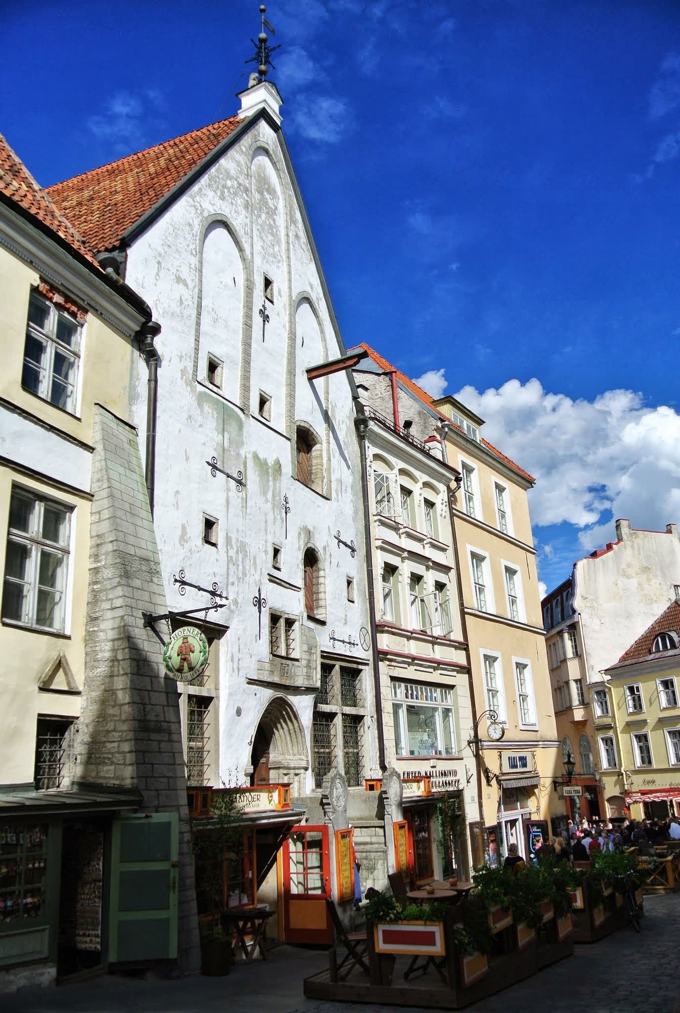 Old Town of Tallinn, Tallinn, Estonia